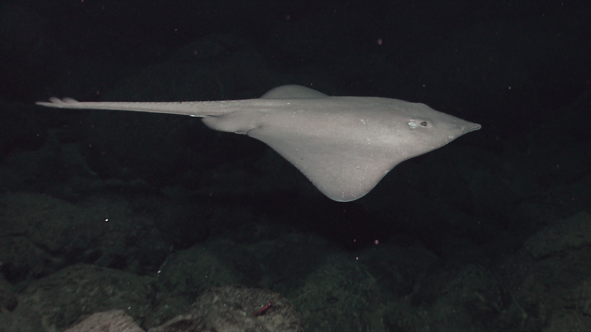 A deep-sea skate glide through the outskirts of a vent field. Image ID: expl6381, Voyage To Inner Space - Exploring the Seas With NOAA Collect Photo Date: 2011 July 15 Credit: NOAA Okeanos Explorer Program, Galapagos Rift Expedition 2011